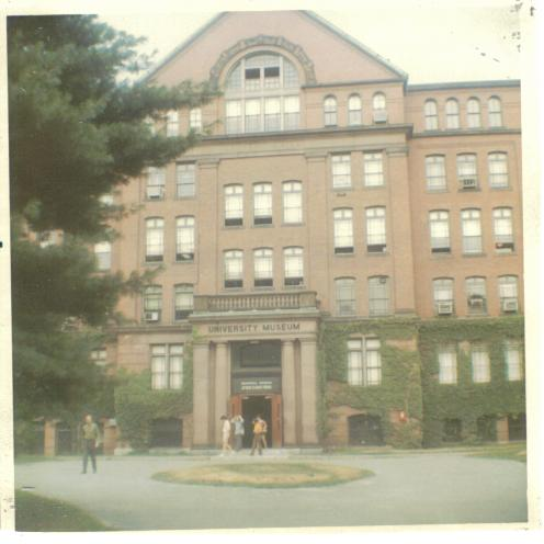 I took photo myself with Kodak camera.